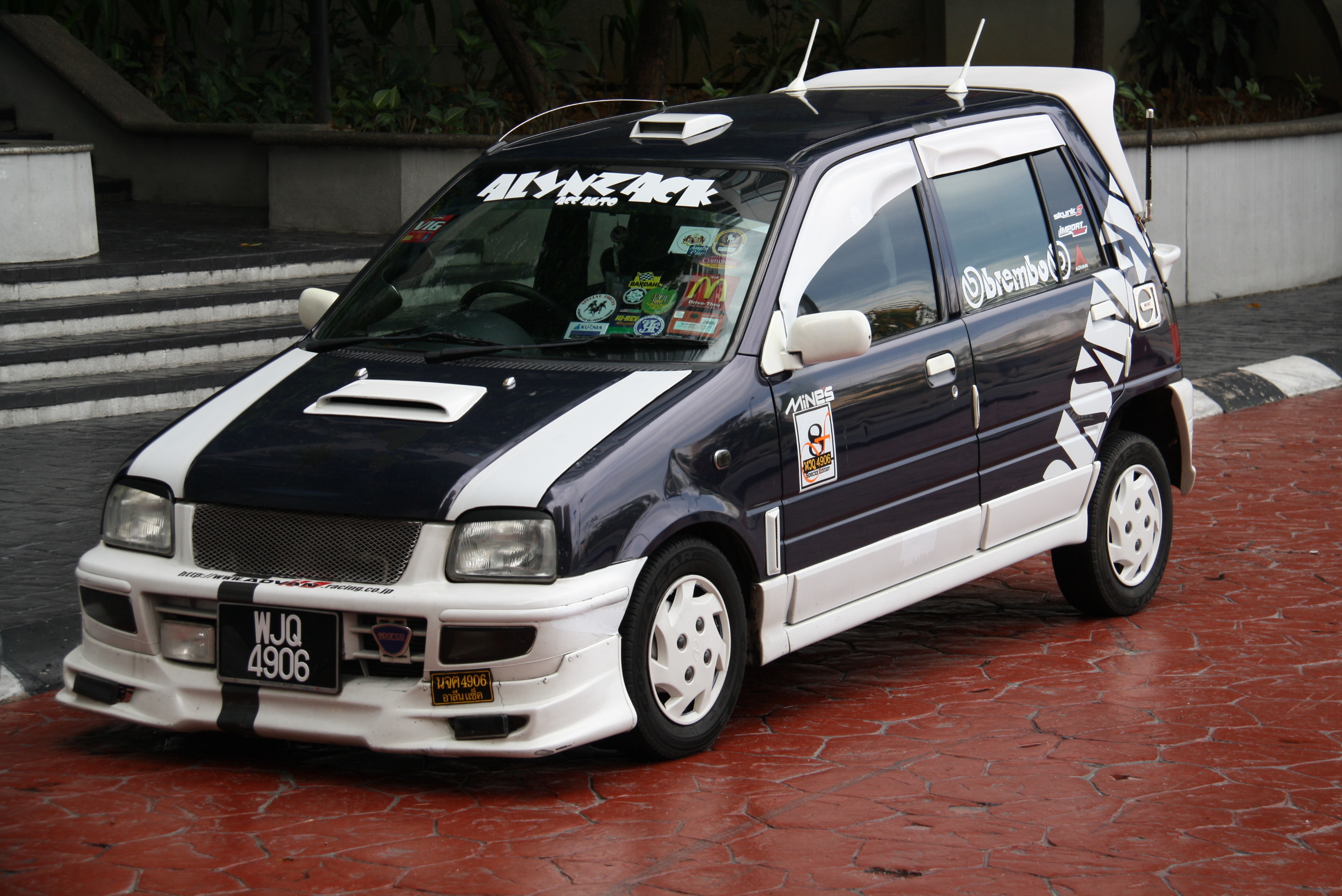 This guy passed "too much" a long time ago.